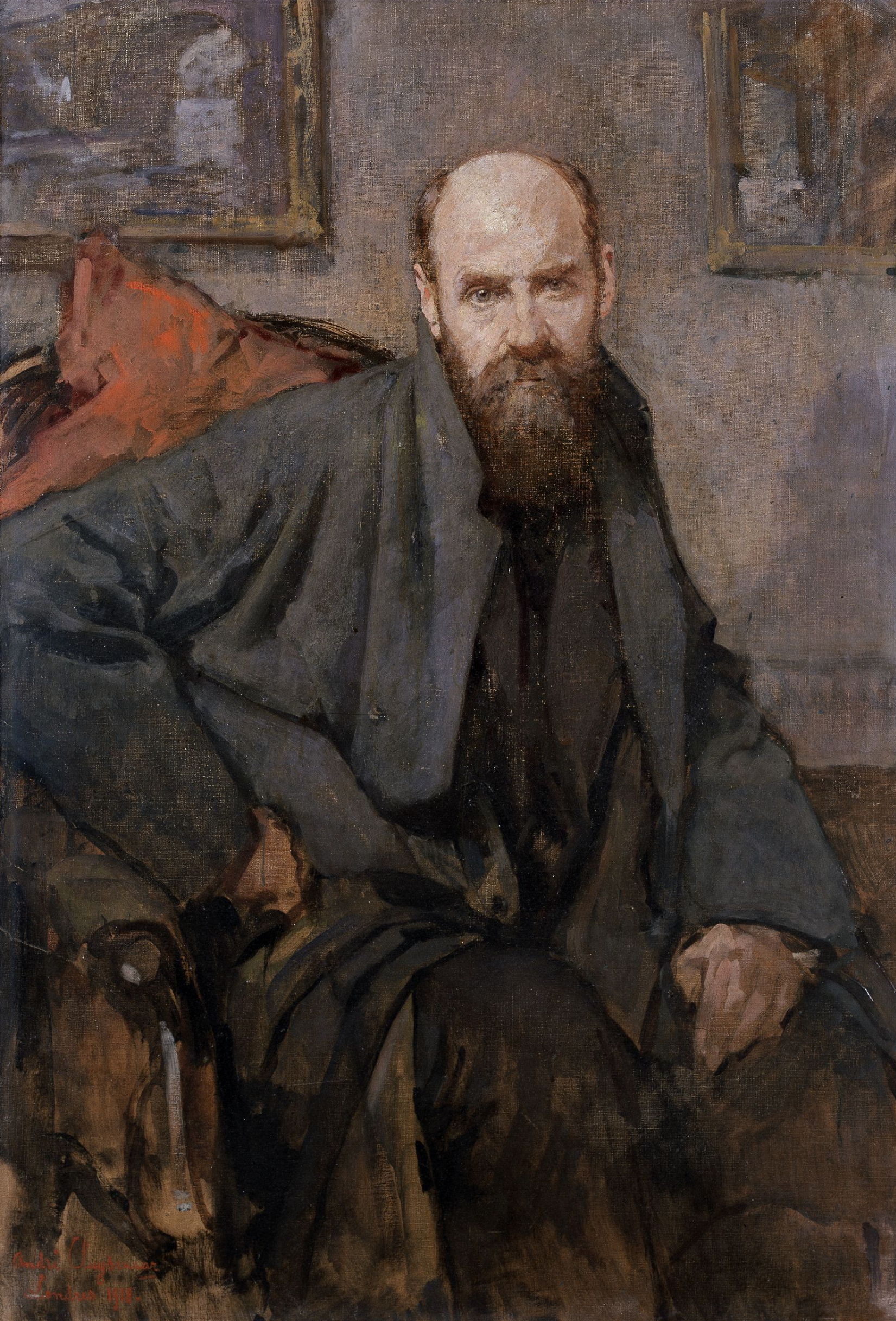 Portret van Albert Baertsoen